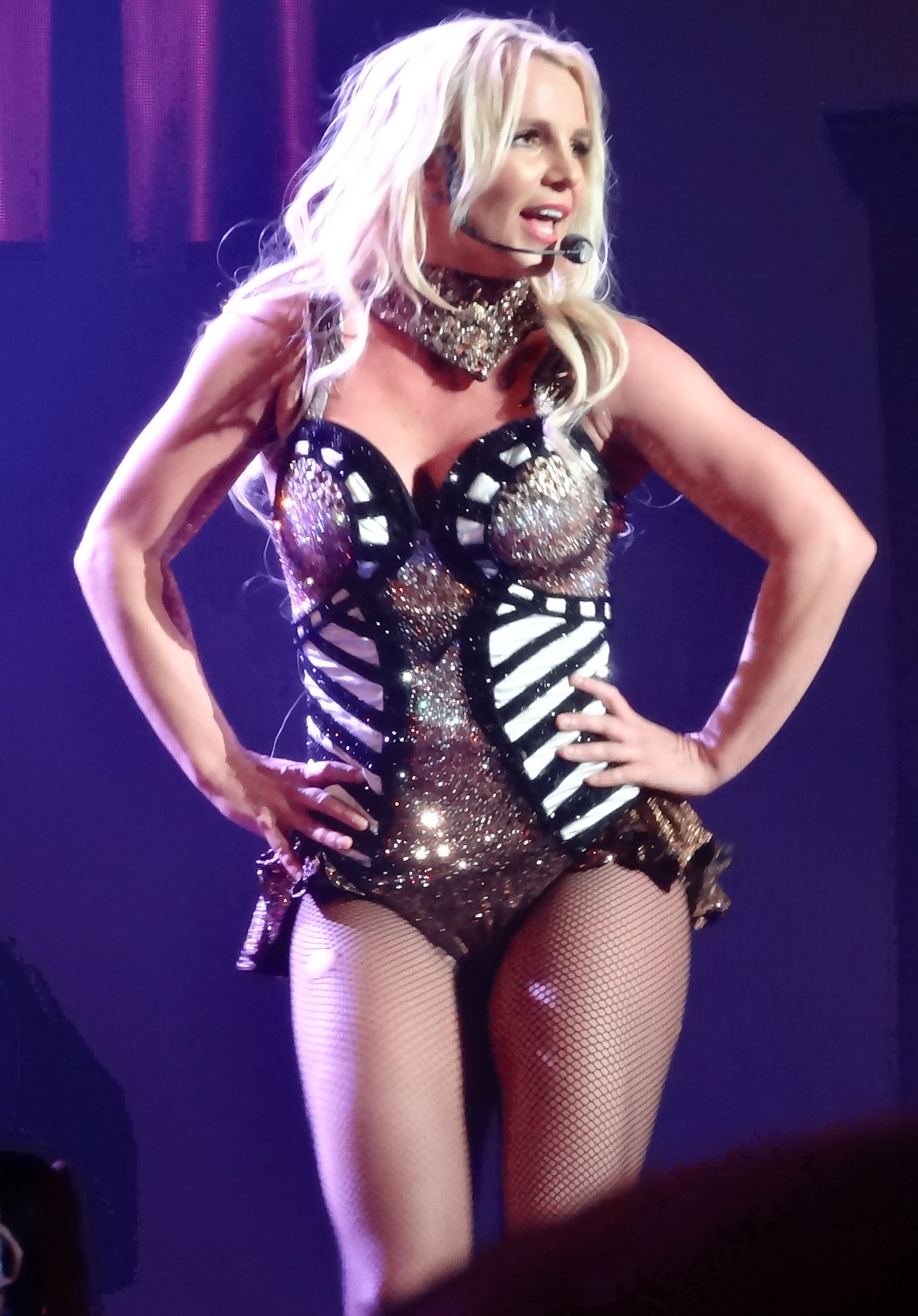 Circus